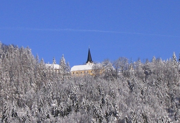 Winter view of St. Jošt Church, Paški Kozjak, Slovenia